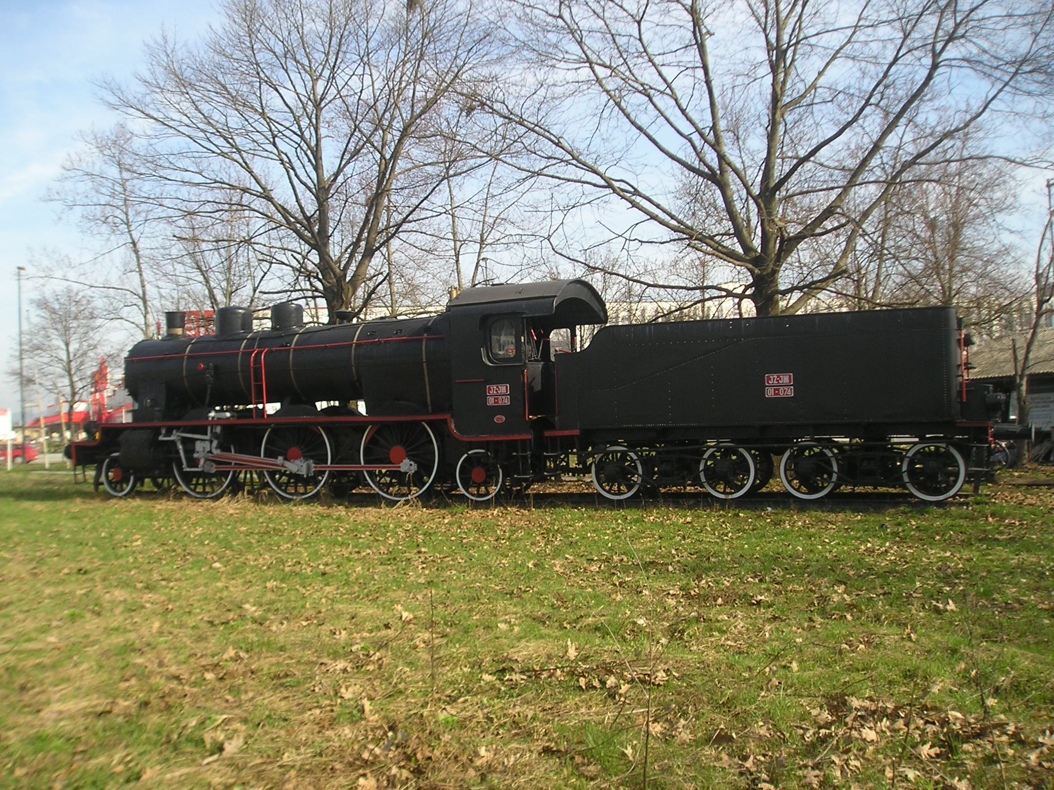 Standard gauge steam locomotive JŽ 01-074 at the freight station Ljubljana Moste (eastern part of Ljubljana, Slovenia), at the crossroads of the Kajuhova and Letališka street. Length: 20.57 m, height: 4.25 m, weight: 82.6 t, max. speed: 90 km/h, capacity of water: 20 m³, capacity of coal: 8 t, type: 1C1t h4 The locomotive was produced in 1922 by Berliner Maschinenbau AG (previously L. Schwartzkopff), serial nr. 7995. It pulled passenger and express trains. It operated on lines Maribor - Zagreb and Maribor - Kotoriba, occasionally also on Maribor - Ljubljana. Pospichal Lokstatistik. About the class 01. More photos 1 and 2.